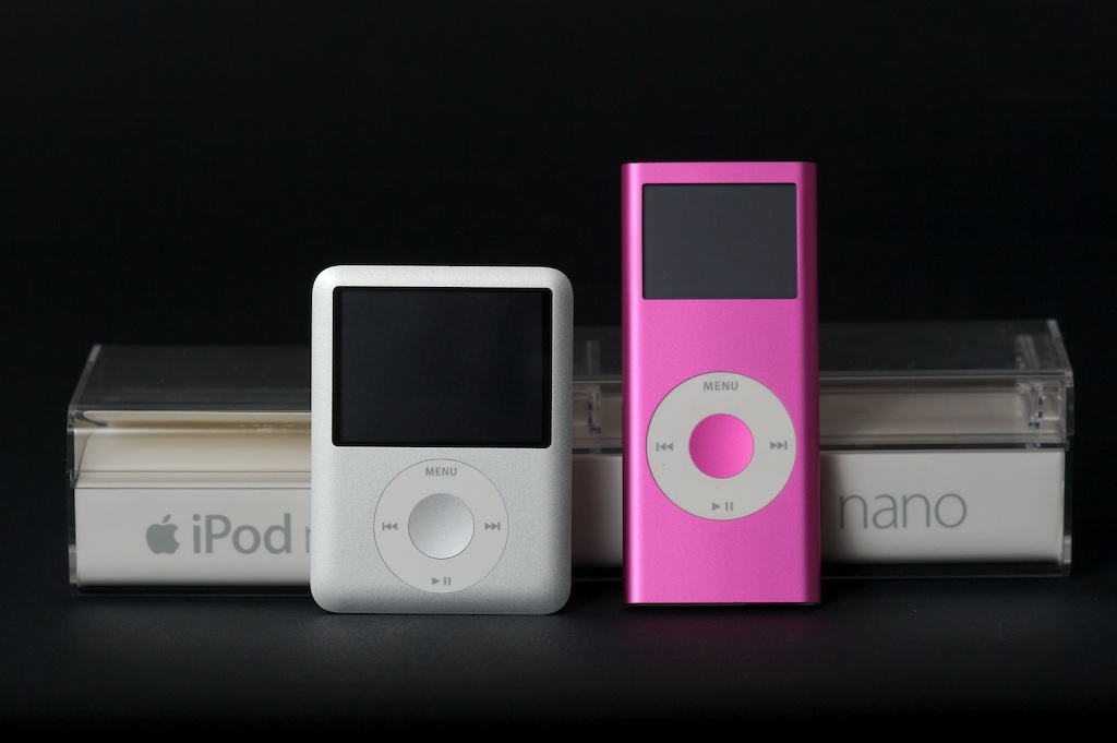 Grey 3rd gen. and pink 2d gen. iPod nano.